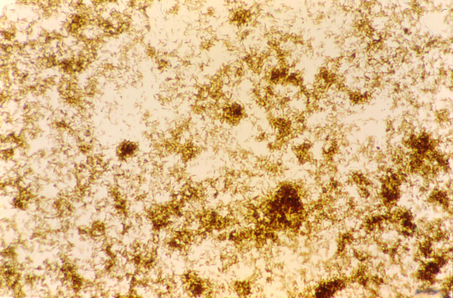 Isolated P.falciparum hemozoin, Giemsa-stained, magnification x 3000